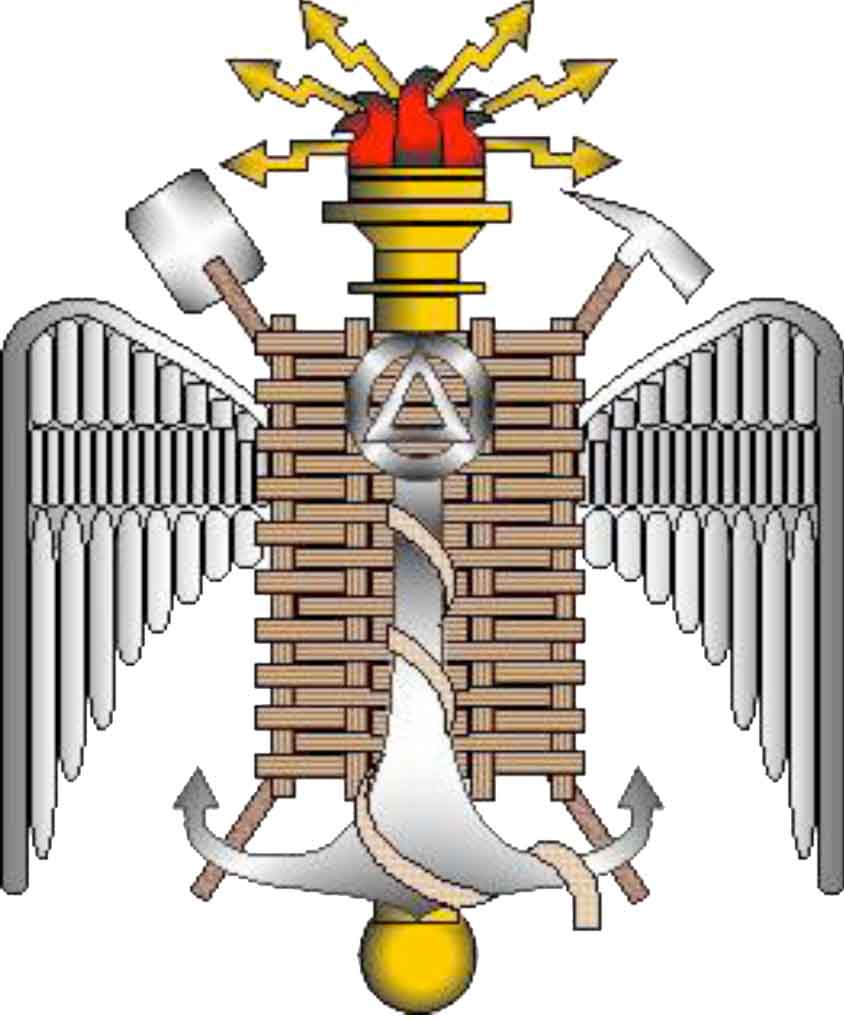 Escudo EMI